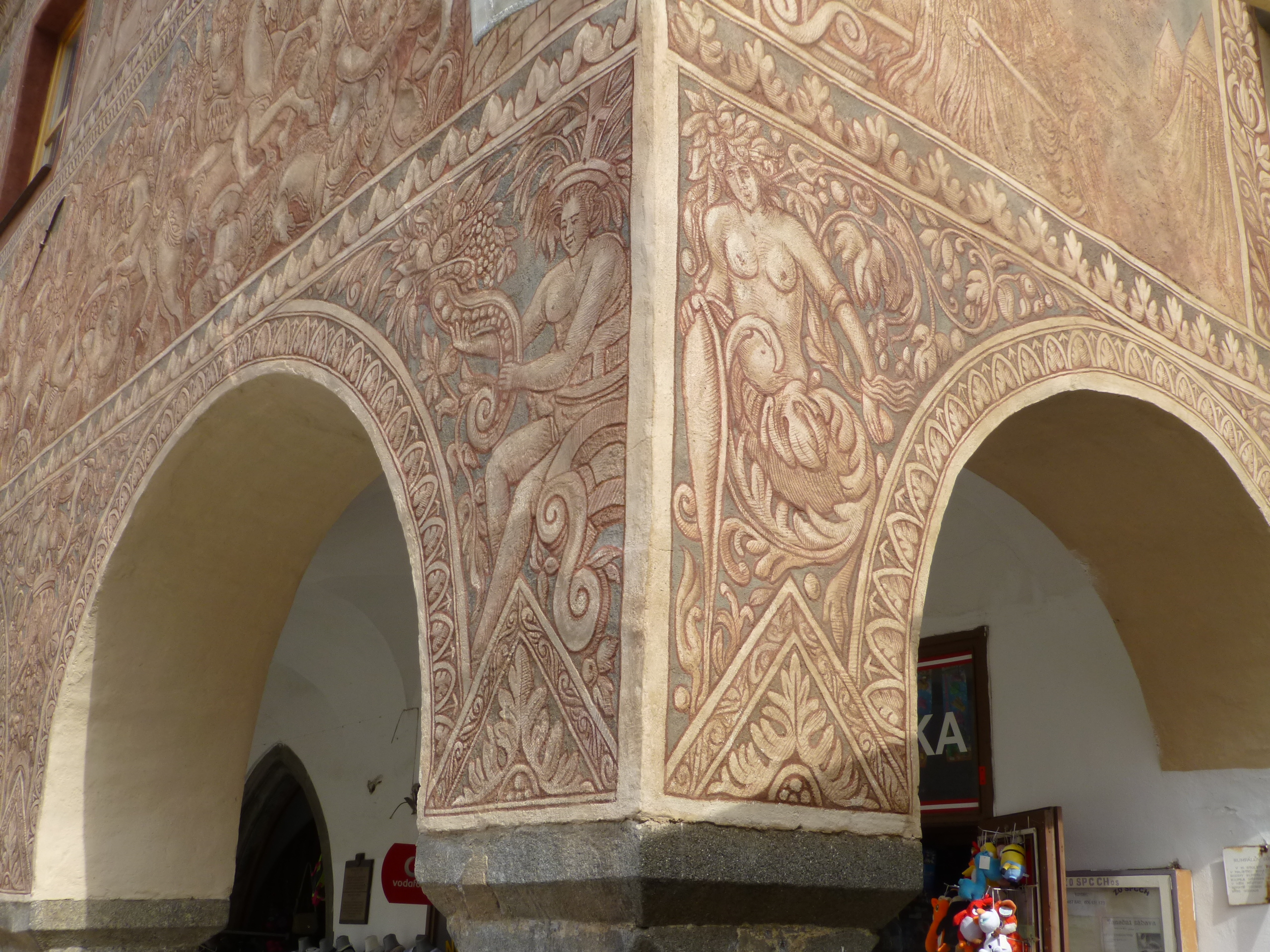 House Rumpal, Prachatice, Southern Bohemia.